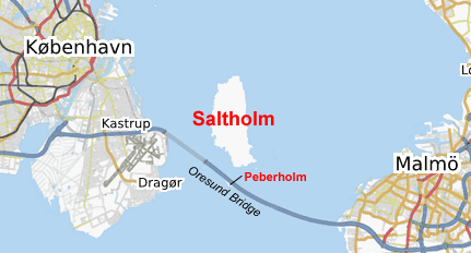 Map of the southern Øresund showing the locations of Saltholm and Peberholm islands. Generated from